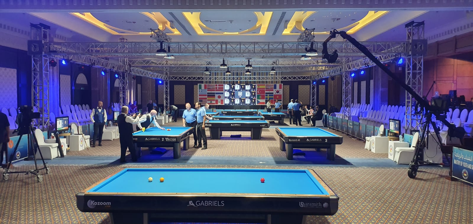 see fiel name